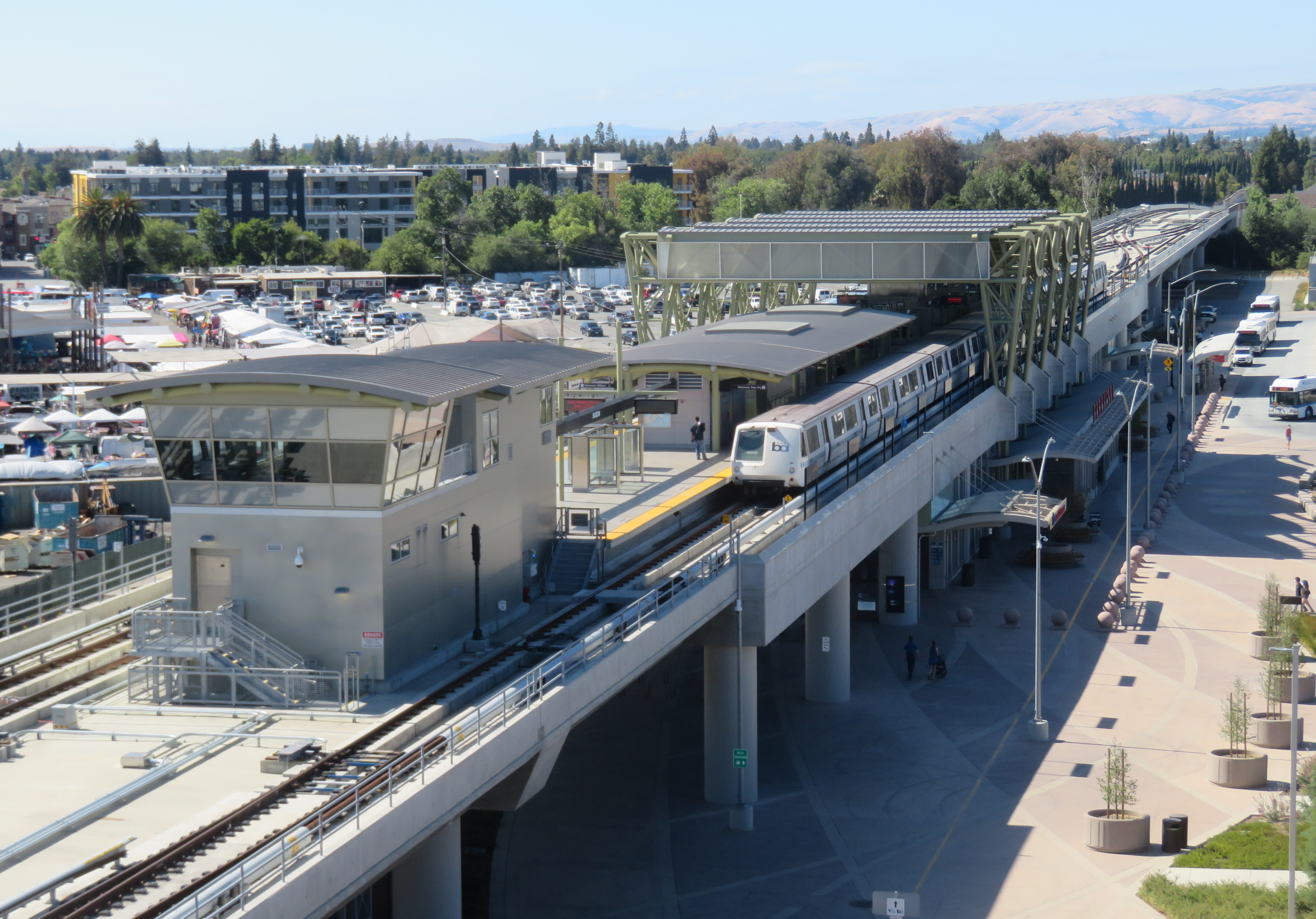 Berryessa/North San José station viewed from the parking garage on the first day of service in June 2020